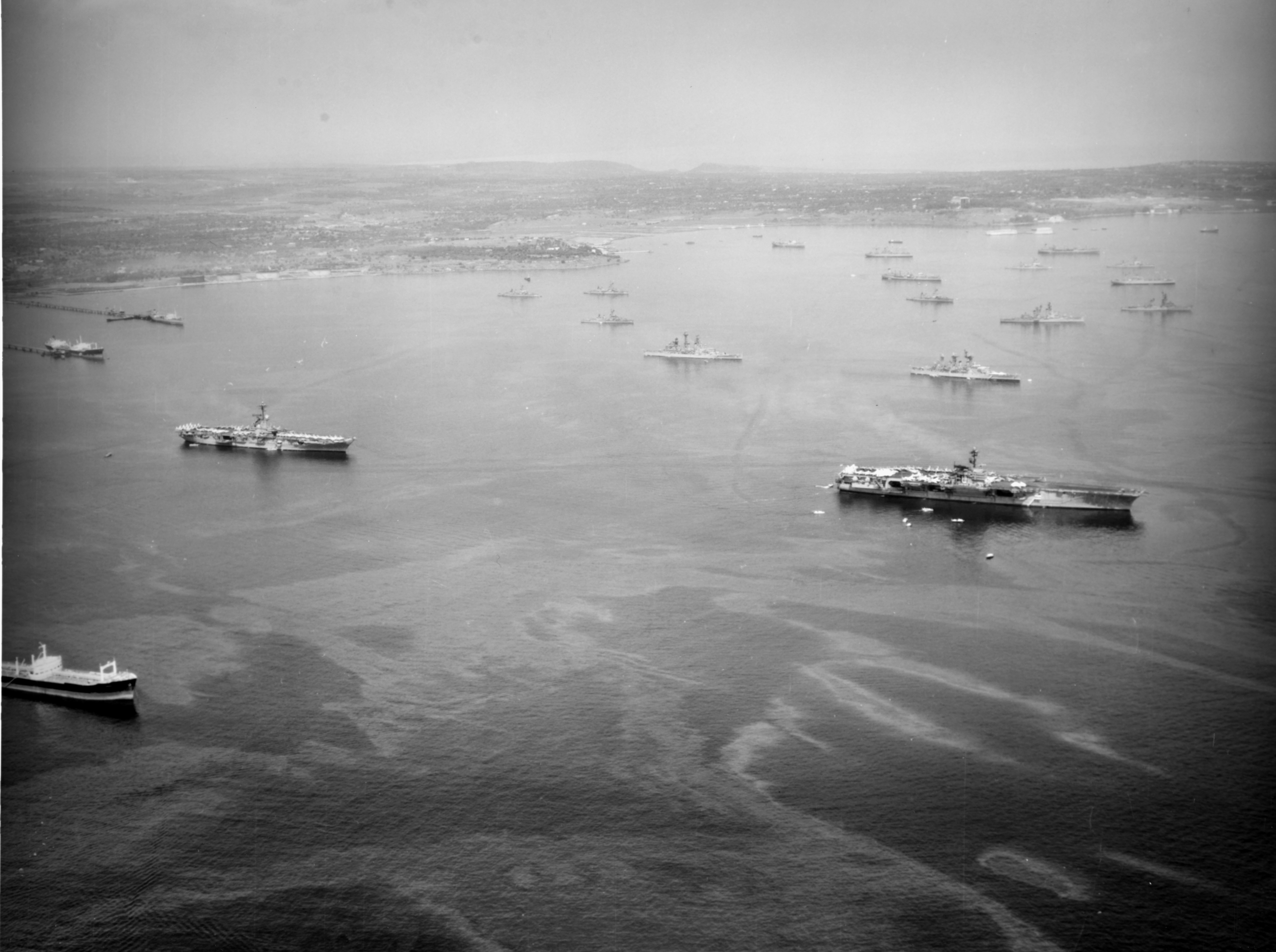 U.S. Sixth Fleet ships at anchor in Augusta Bay, Sicily, on 17 March 1965. The large carrier, at right, is USS Saratoga (CVA-60). Other U.S. Navy ships visible include one USS Shangri-La (CVA-38), two guided missile light cruisers (CLG), two guided-missile frigates (DLG), six destroyers (DD), two oilers (AO) and other auxiliaries. There are also several merchant ships present.